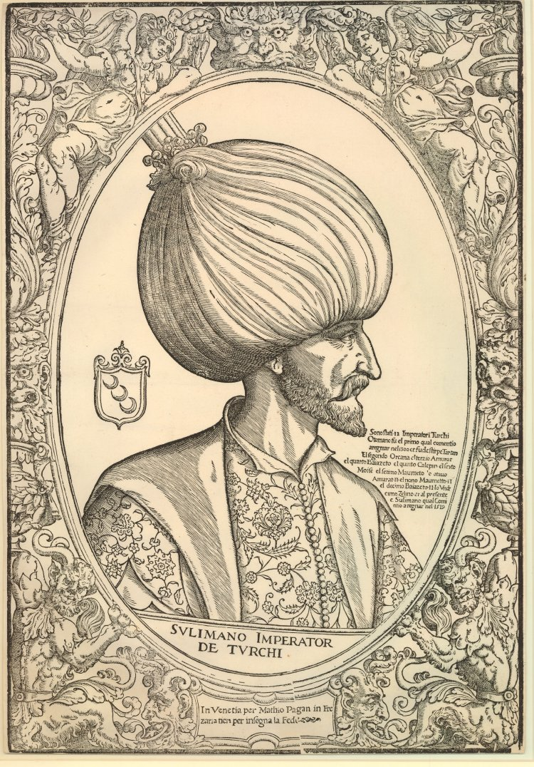 Portrait bust in profile of Suleyman the Magnificent (1494-1566) in an oval in a decorated border with a lion mask and two women. 1540s Woodcut